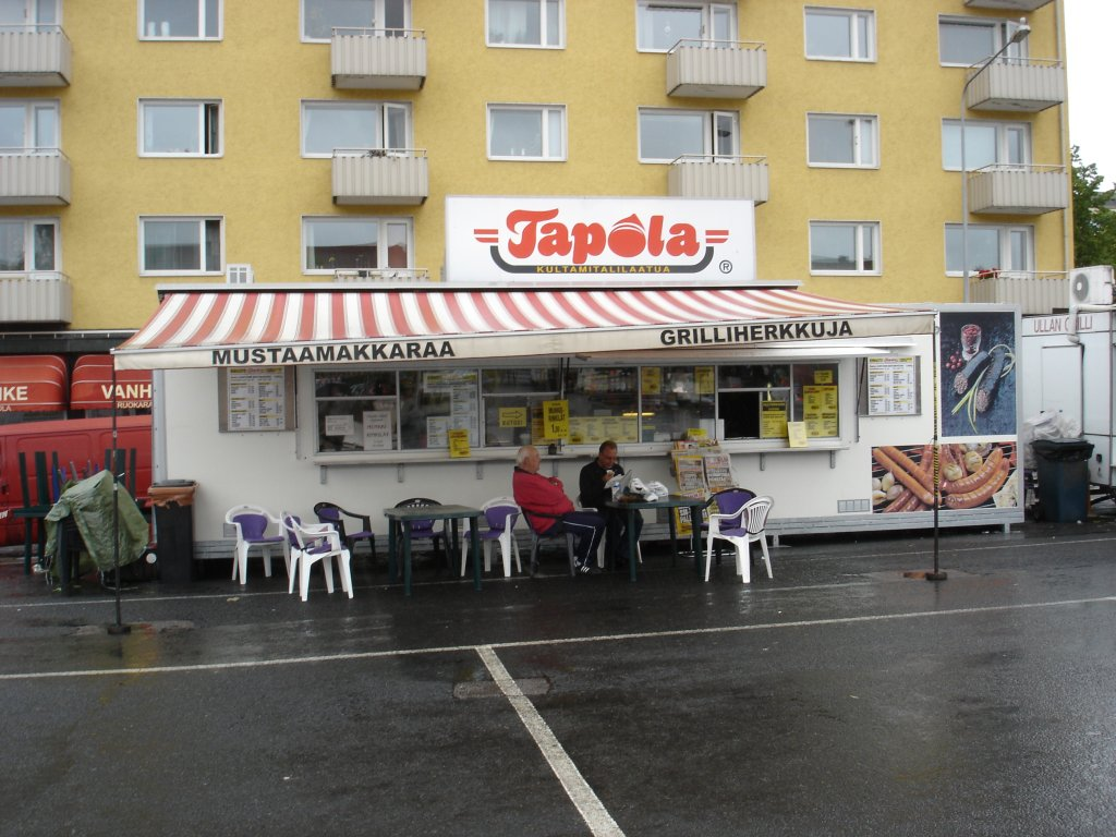 Mustamakkara sausage stall at Tammela Market in Tampere